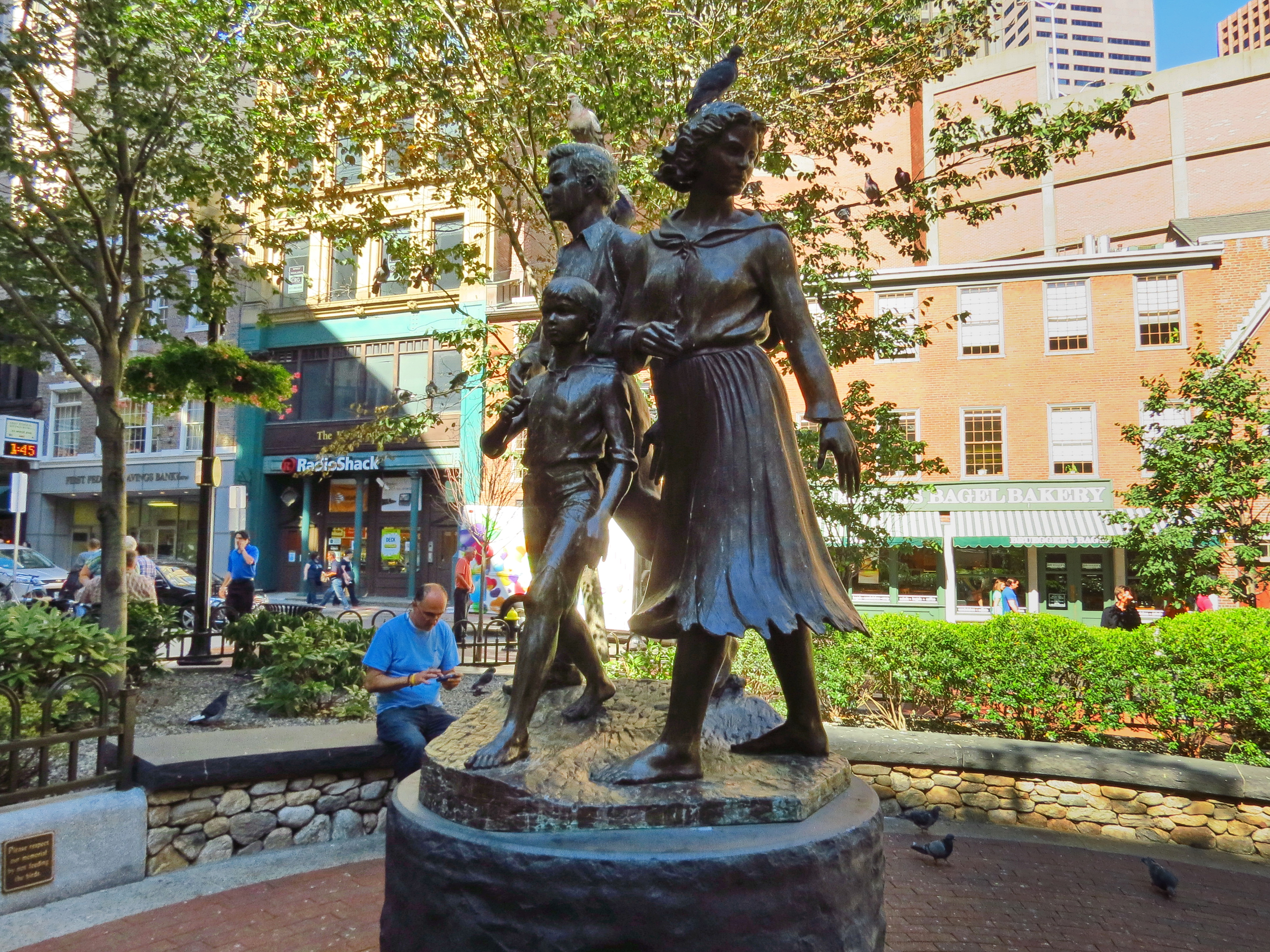 Irish Famine Memorial, Washington St, Boston.